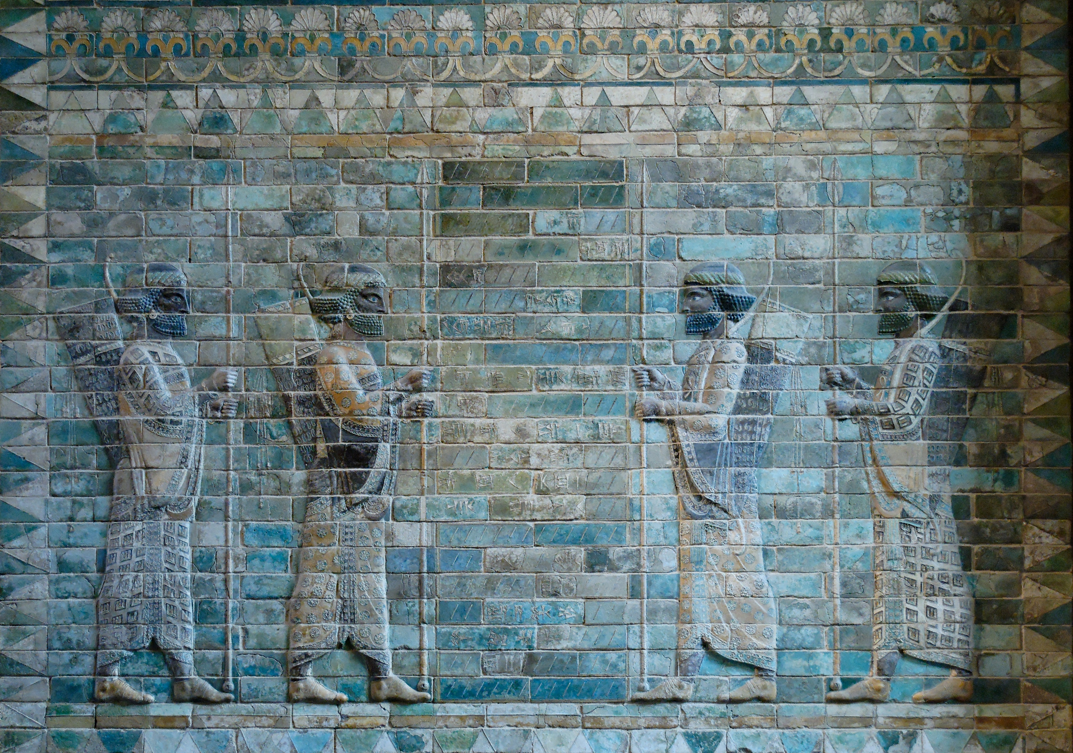 Archers frieze from Darius' palace at Susa. Glazed siliceous bricks, ca. 510 BC.